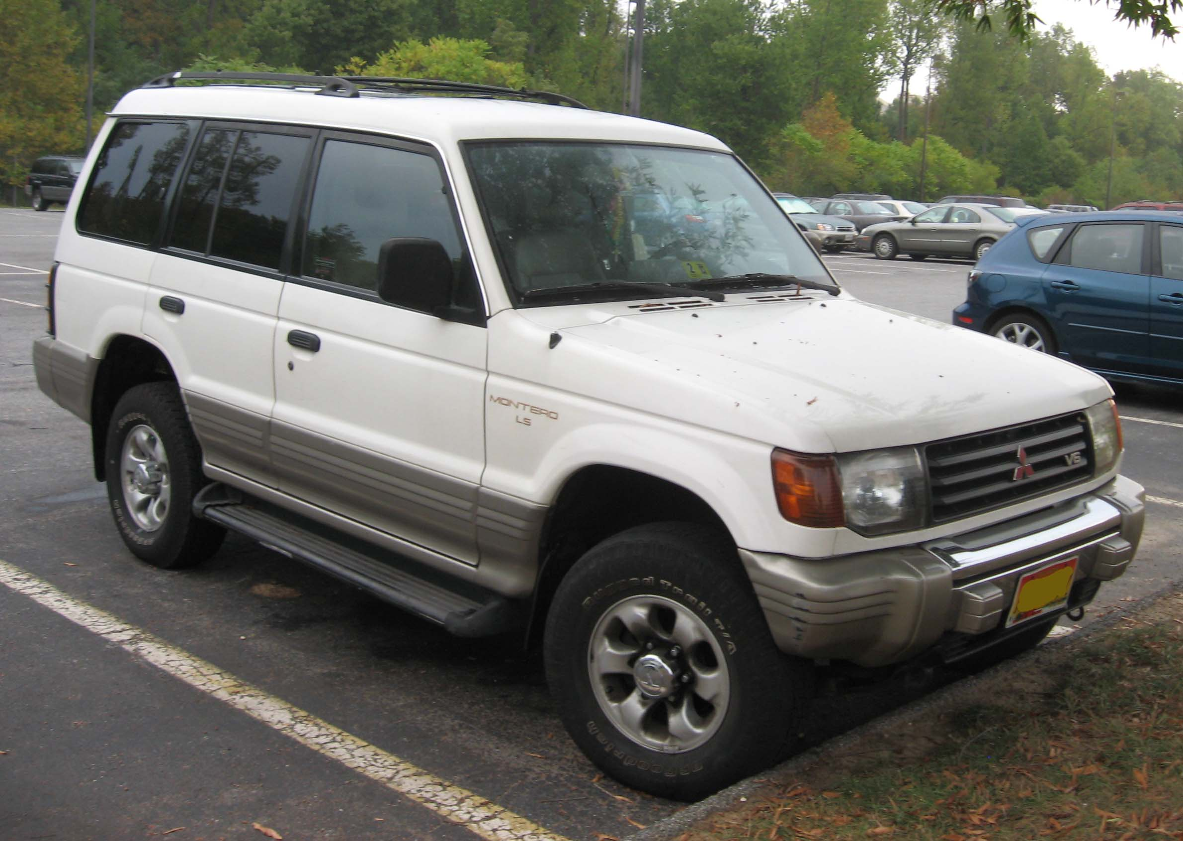 1991-1999 Mitsubishi Montero photographed in College Park, Maryland, USA.